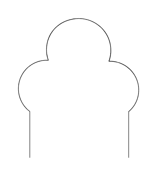 Subtype of horseshoe arch